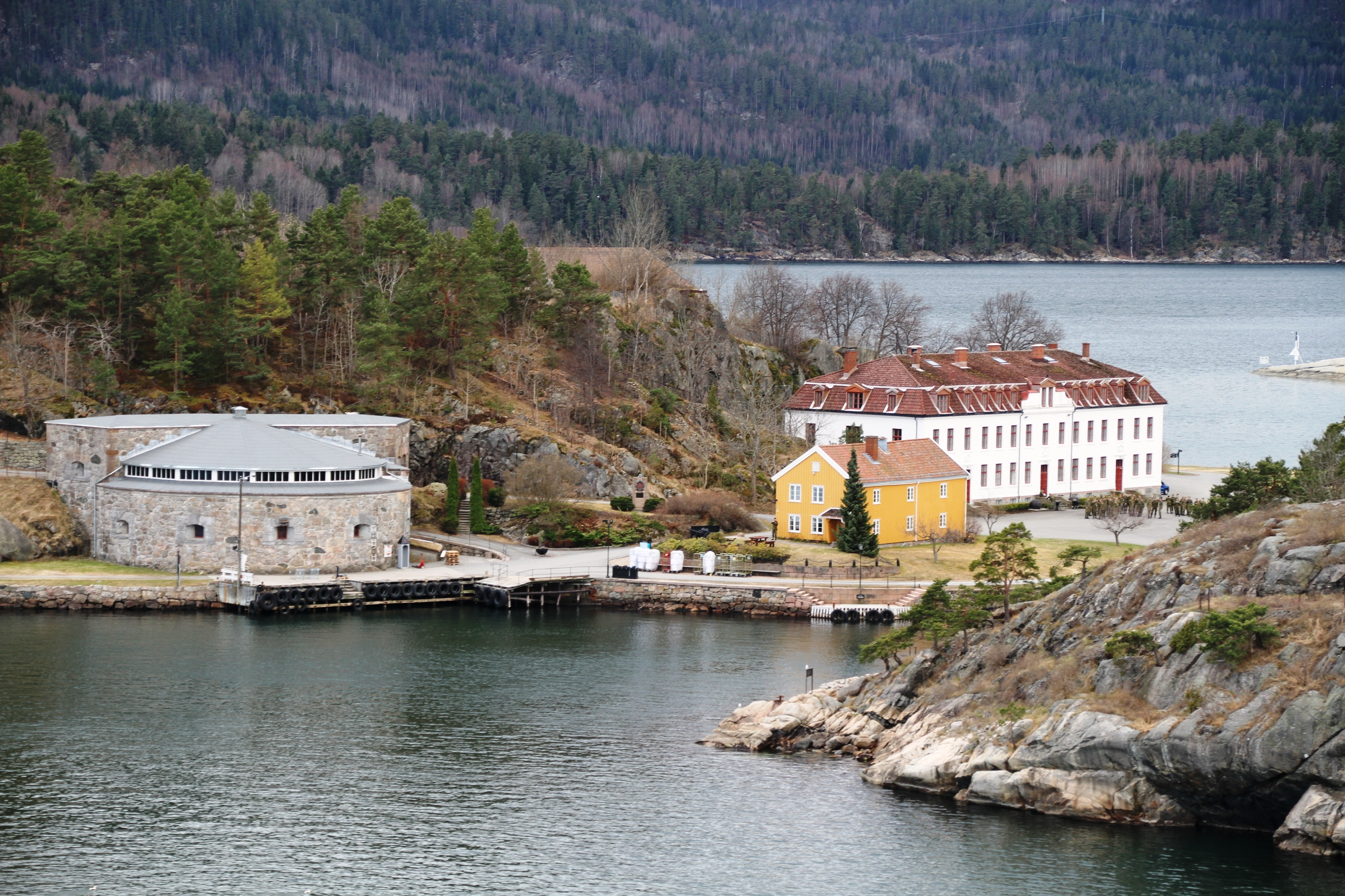 Image of the Kaholmen island with Oscarsborf Fort, in the middle of the Oslo Fjord. This is the fortress that brought down the "Blücher" battleship with 3.000 german crew and soldiers, by early morning of April 9, 1940.